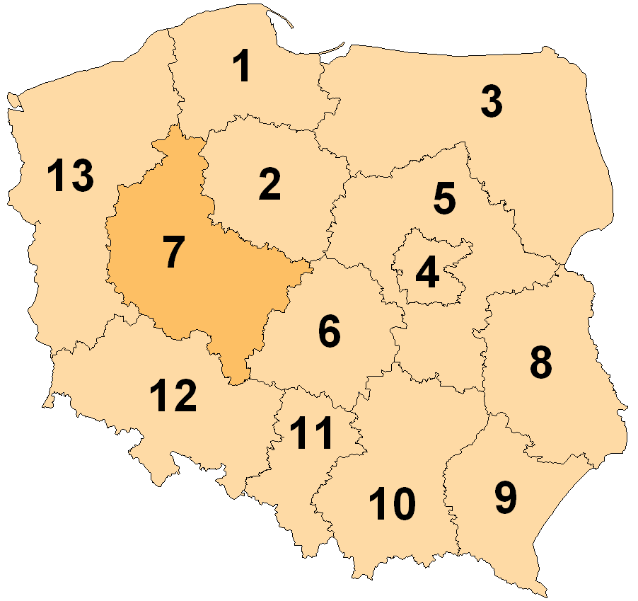 Greater Poland (European Parliament constituency) - European Parliament constituencie in Poland